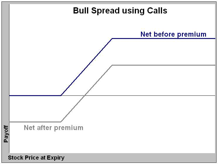 I the creator donate this file to the public domain. Smallbones 15:00, 20 June 2007 (UTC)